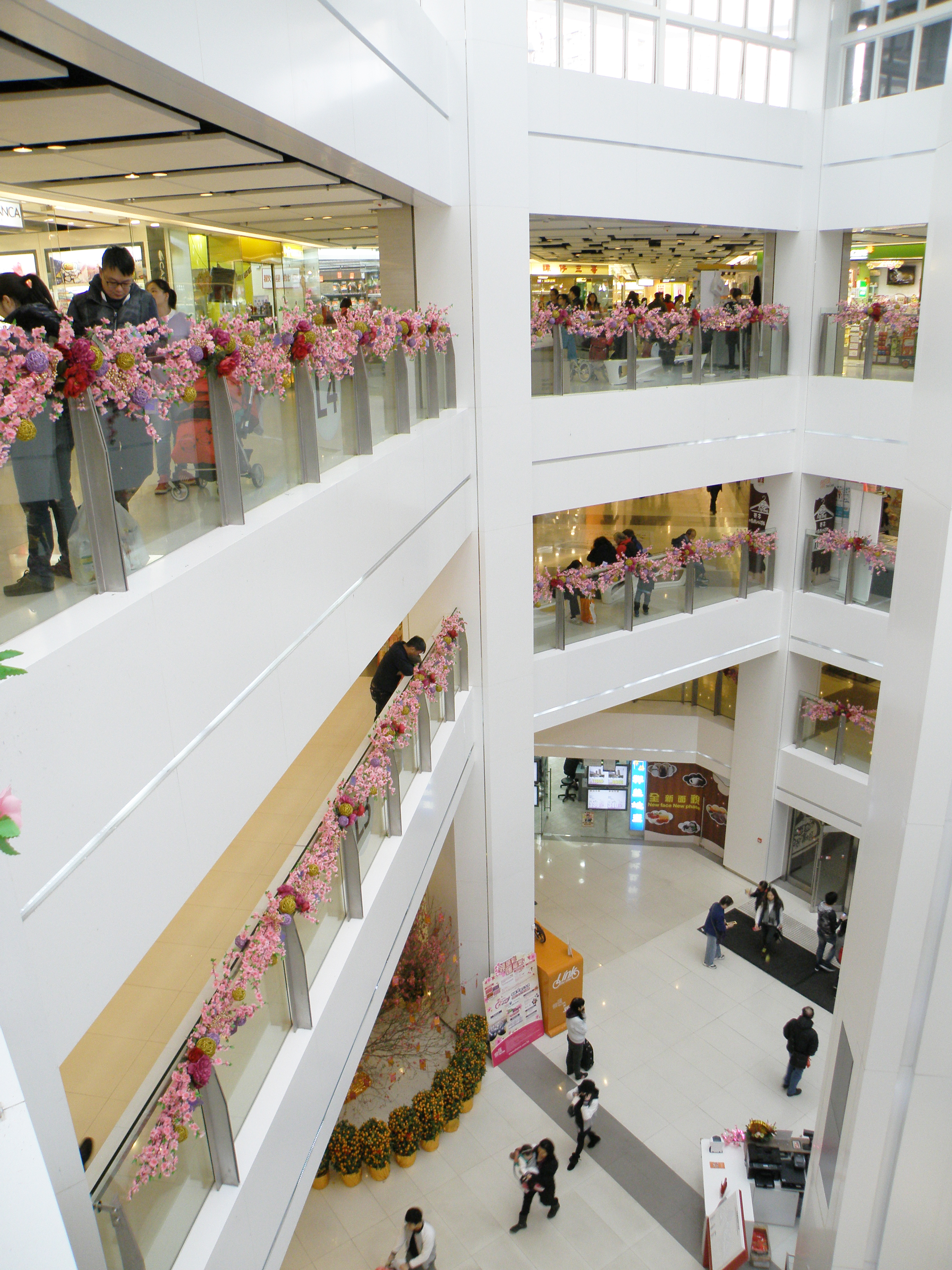 Leung King Plaza in Tuen Mun, Hong Kong.